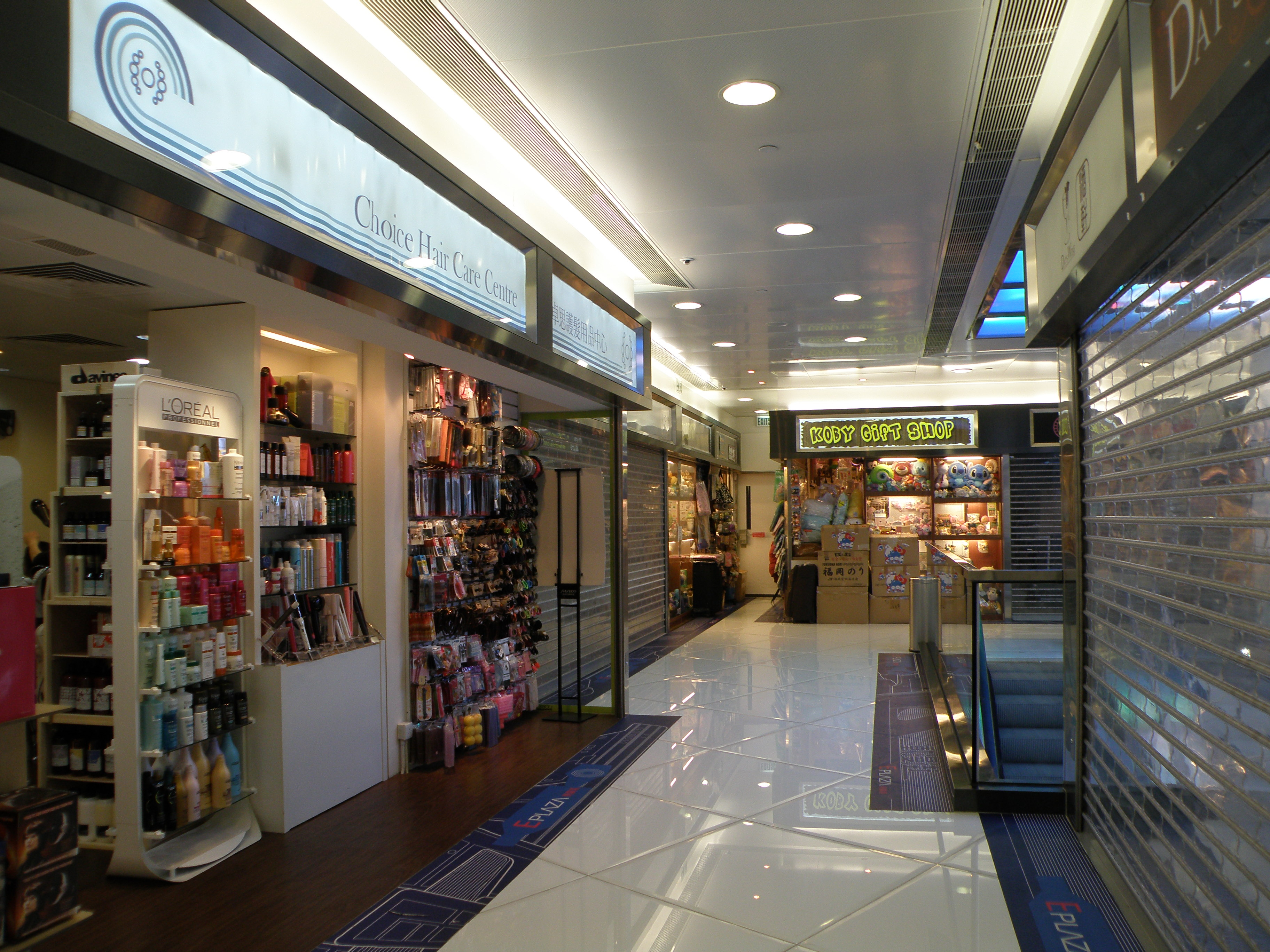 E Plaza in Kwun Tong, Hong Kong.